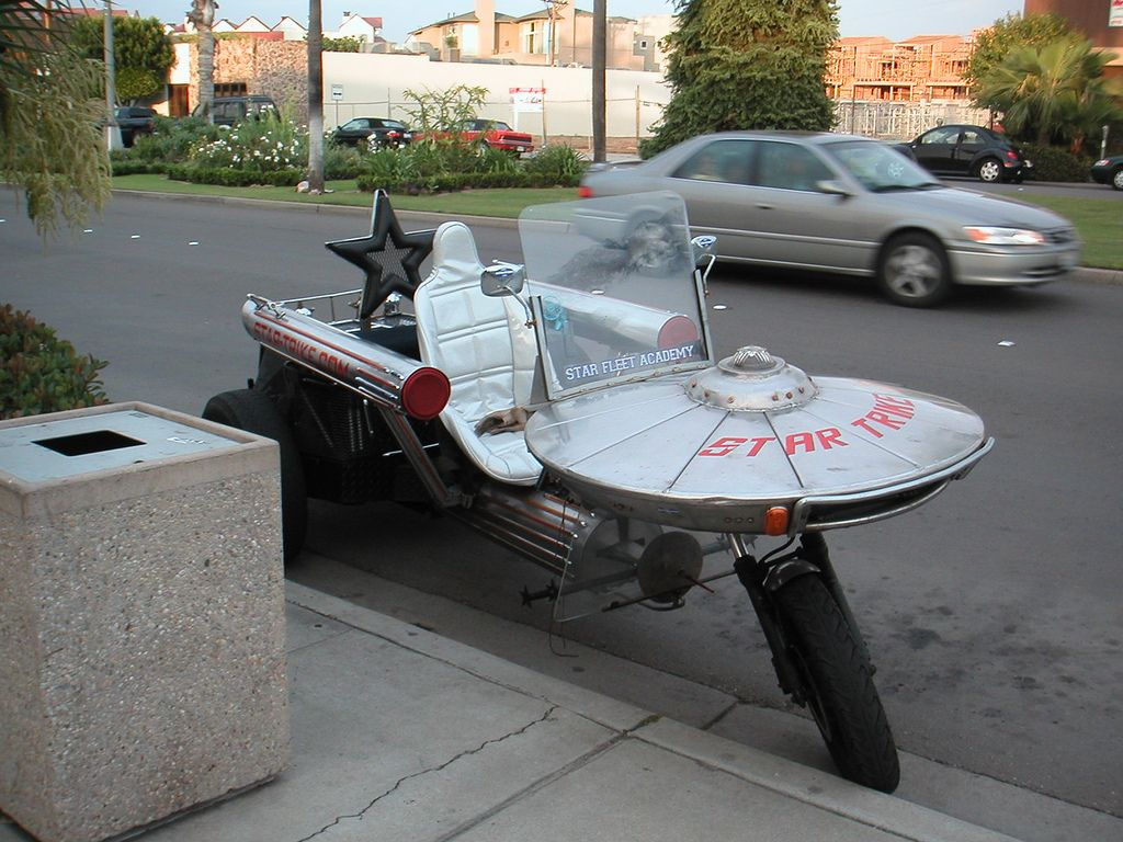 trekkies tuned motorcycle